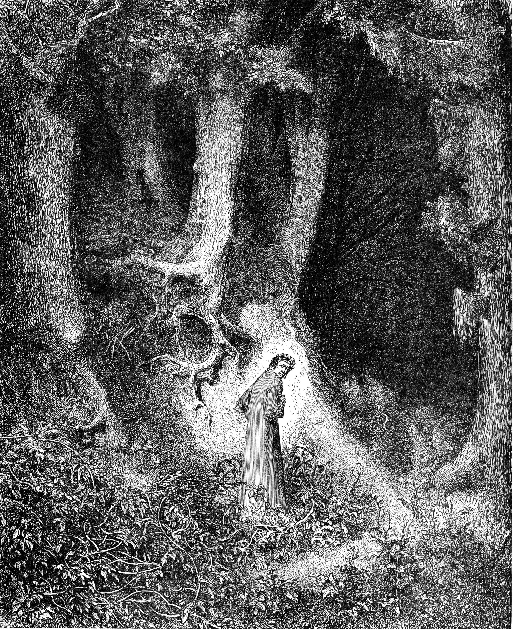 High resolution scan of engraving by Gustave Doré illustrating Canto I of Divine Comedy, Inferno, by Dante Alighieri. Caption: Dante astray in the Dusky Wood